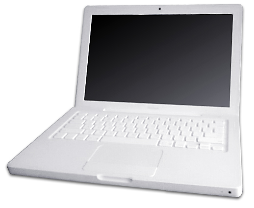 A white Apple MacBook.